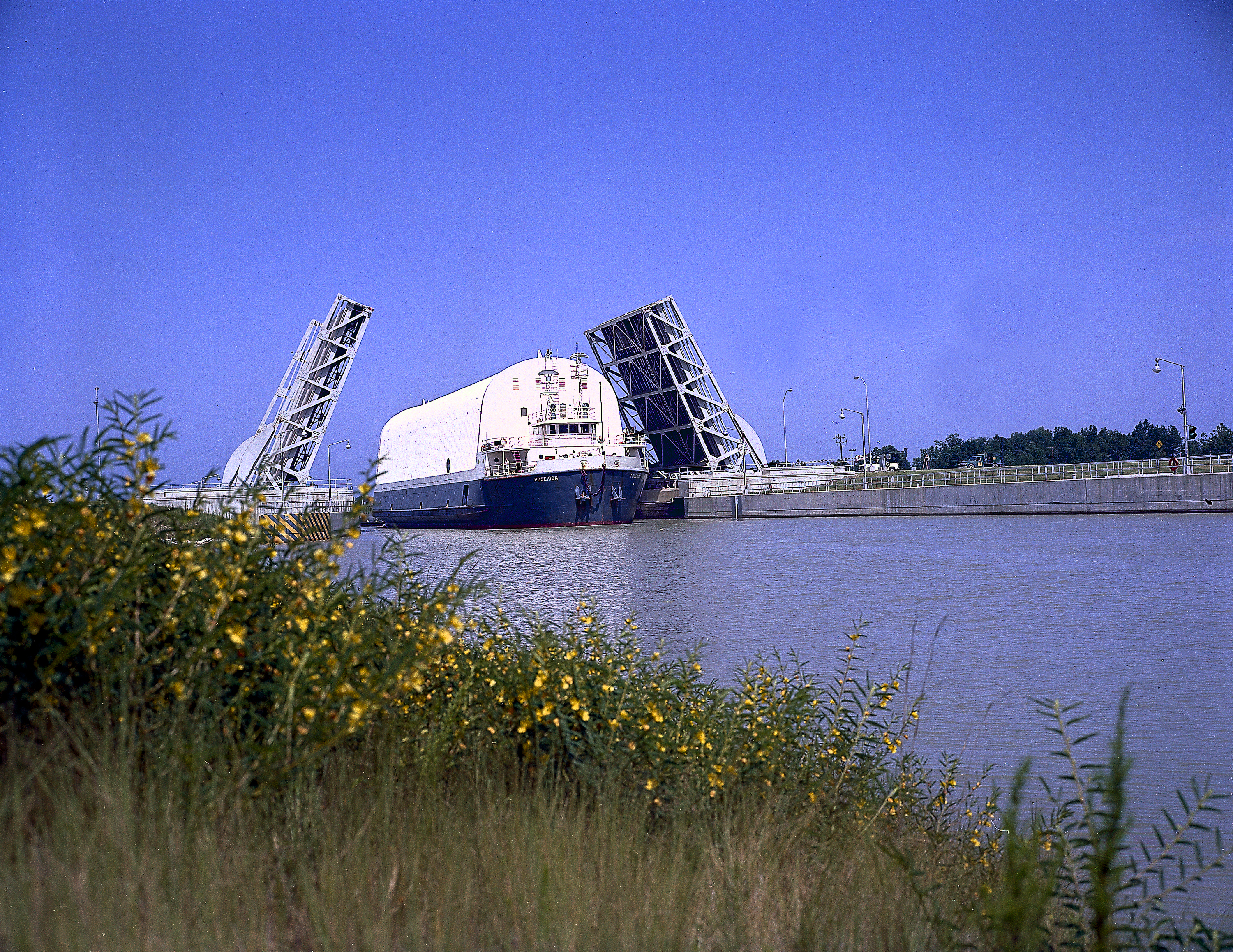 NASA used barges for transporting full-sized stages for the Saturn I, Saturn IB, and Saturn V vehicles between the Marshall Space Flight Center (MSFC), the manufacturing plant at the Michoud Assembly Facility (MAF), the Mississippi Test Facility for testing, and the Kennedy Space Center. The barges traveled from the MSFC dock to the MAF, a total of 1,086.7 miles up the Tennessee River and down the Mississippi River. The barges also transported the assembled stages of the Saturn vehicle from the MAF to the Kennedy Space Center, a total of 932.4 miles along the Gulf of Mexico and up along the Atlantic Ocean, for the final assembly and the launch. This photograph shows the barge Poseidon loaded with the Saturn V S-II (second) stage passing through a bascule bridge.